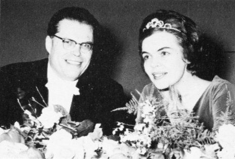 Photograph of the Austrian pianist Erik Werba (1918–1992) and the Finnish vocalist Raili Kostia (1930–1990) in Helsinki.